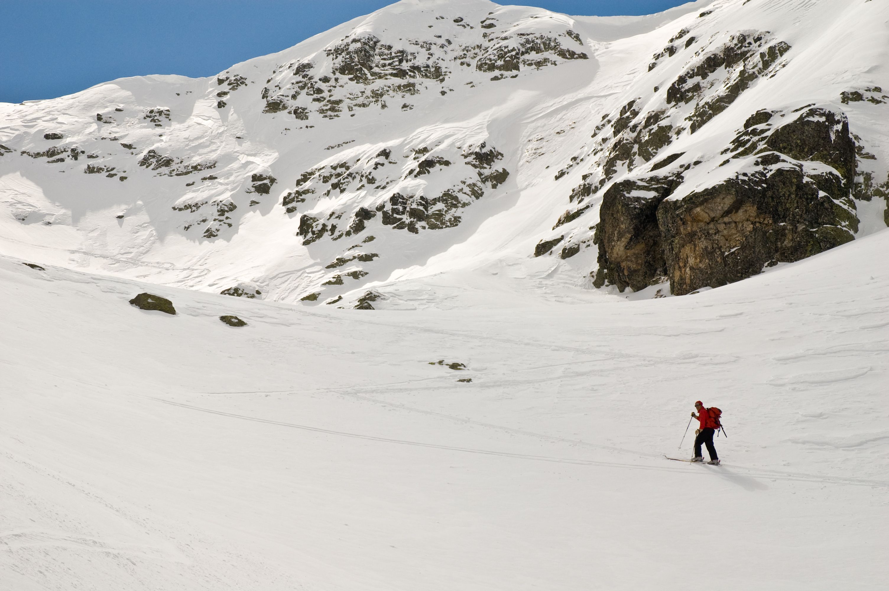 Maliovitca in the Rila mountain range, southwestern Bulgaria.